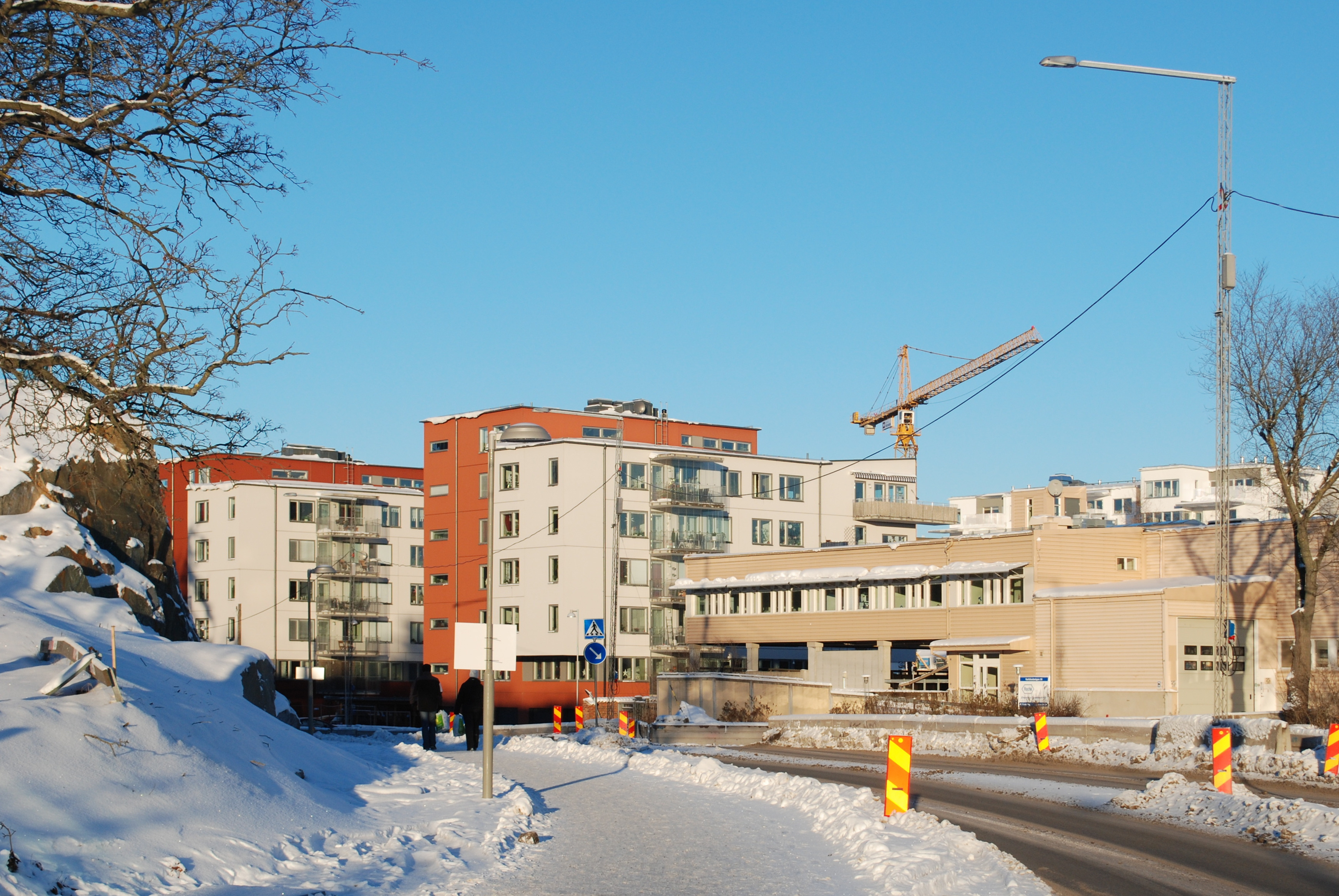 Newly built residential building at Karlsbodavägen, in Ulvsunda industrialområde.